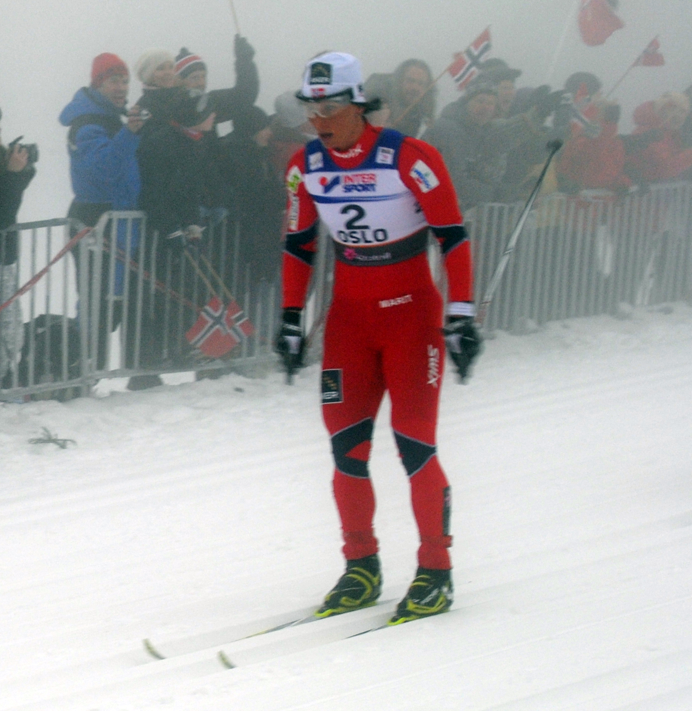 Marit Bjørgen saturday 26 February 2011 at Frognersetra during the skiathlon.